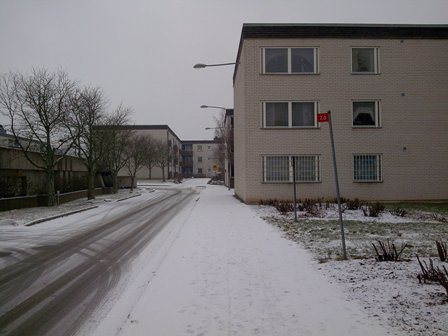 Tensta2